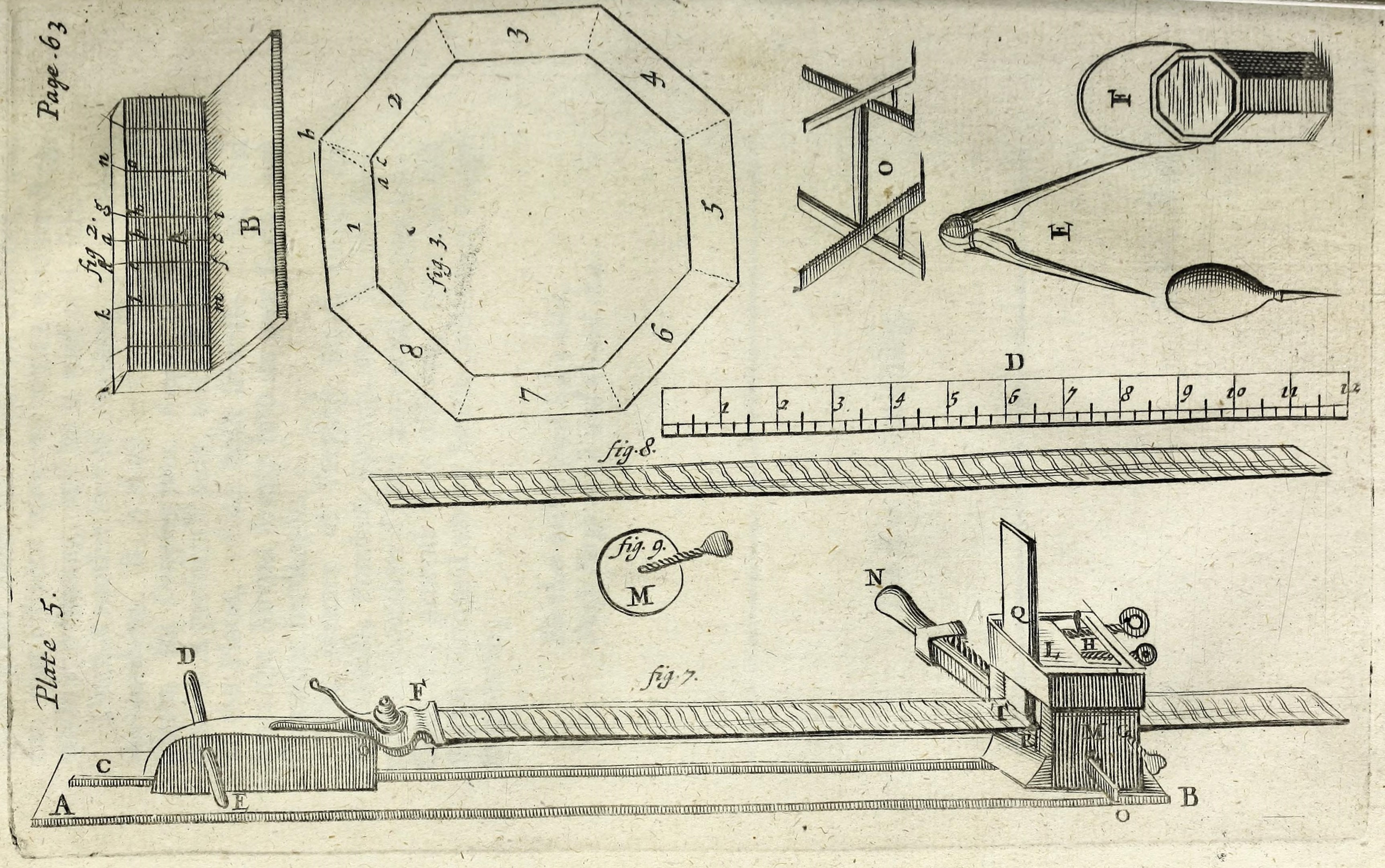 Machine for making rippled mouldings, engraving from Mechanick exercises, or, The doctrine of handy-works (ca. 1680) by Joseph Moxon.